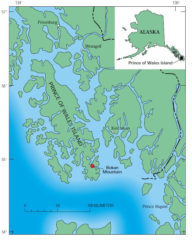 Map showing location of Bokan mountain on Prince of Wales Island, Alaska; inset shows location of island in Alaska.